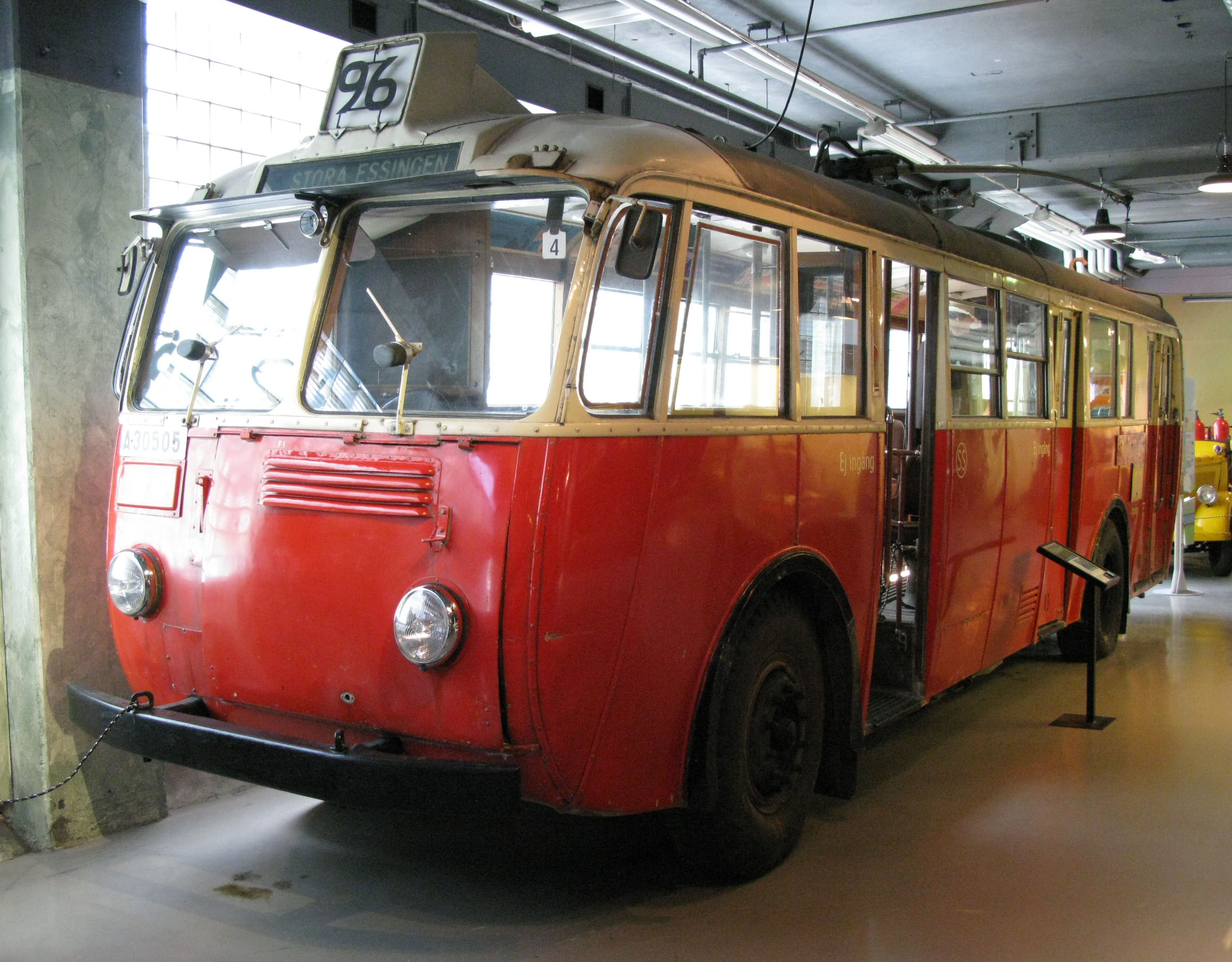 1940 Stockholms Spårvägar F1: Scania-Vabis chassis, ASEA propulsion, Hägglunds body.Location: Stockholms spårvägsmuseum.